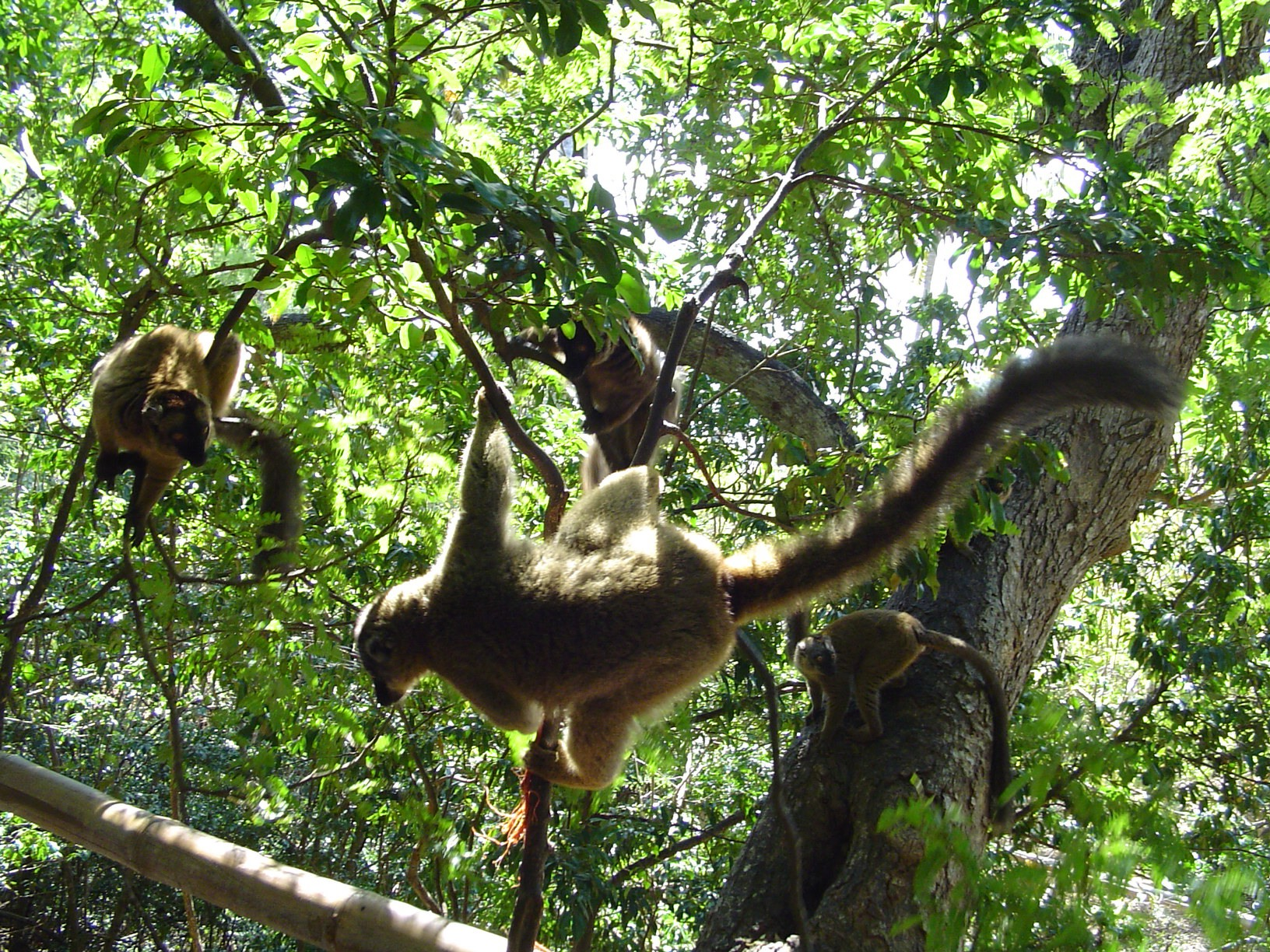 Jumping in the branches